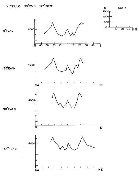 Vitello crater cross section